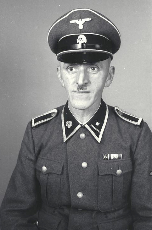 Information added by Wikimedia users.Portrait of SS Scharführer Steffen Bohne, SS Nr. 385 453, Konzentrationslager Dachau (poss. taken at Mauthausen concentration camp in Austria) ID'd from ID tag found on AuctionZip